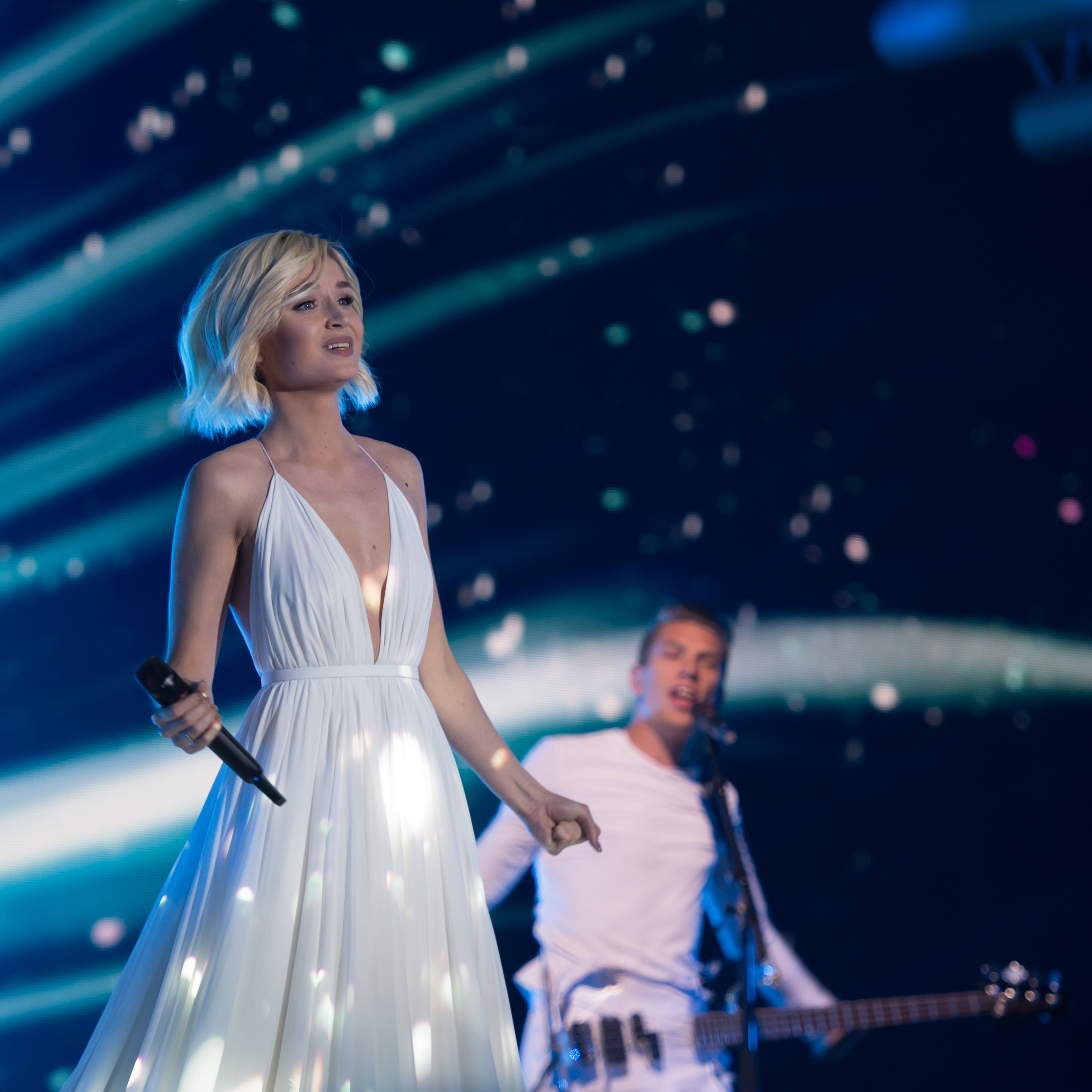 Eurovision Song Contest Vienna 2015: Polina Gagarina